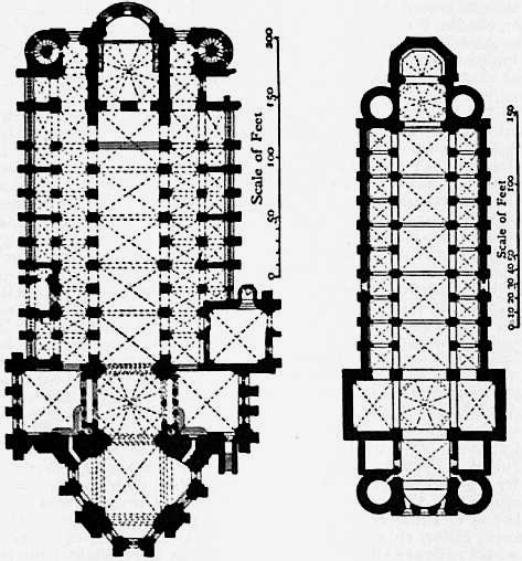 Plan of Cathedral at Mainz (left), and plan of Cathedral at Worms (right).Illustration from 1911 Encyclopædia Britannica, article Architecture.